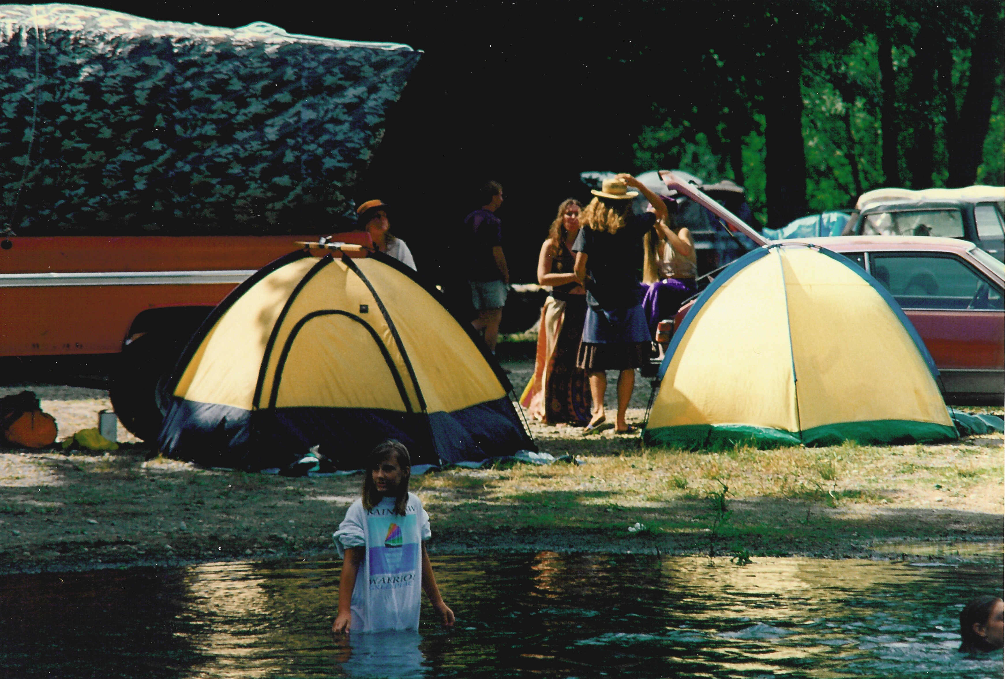 Encampment, child wading in lake at Snoqualmie Moondance festival.